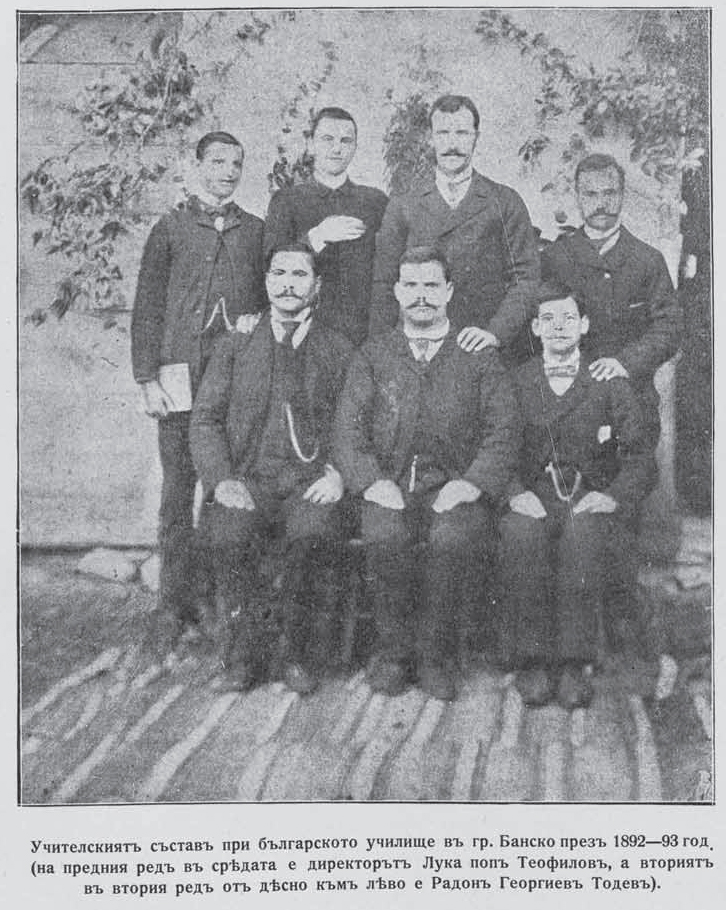 Radon Todev and other teachers from IMARO